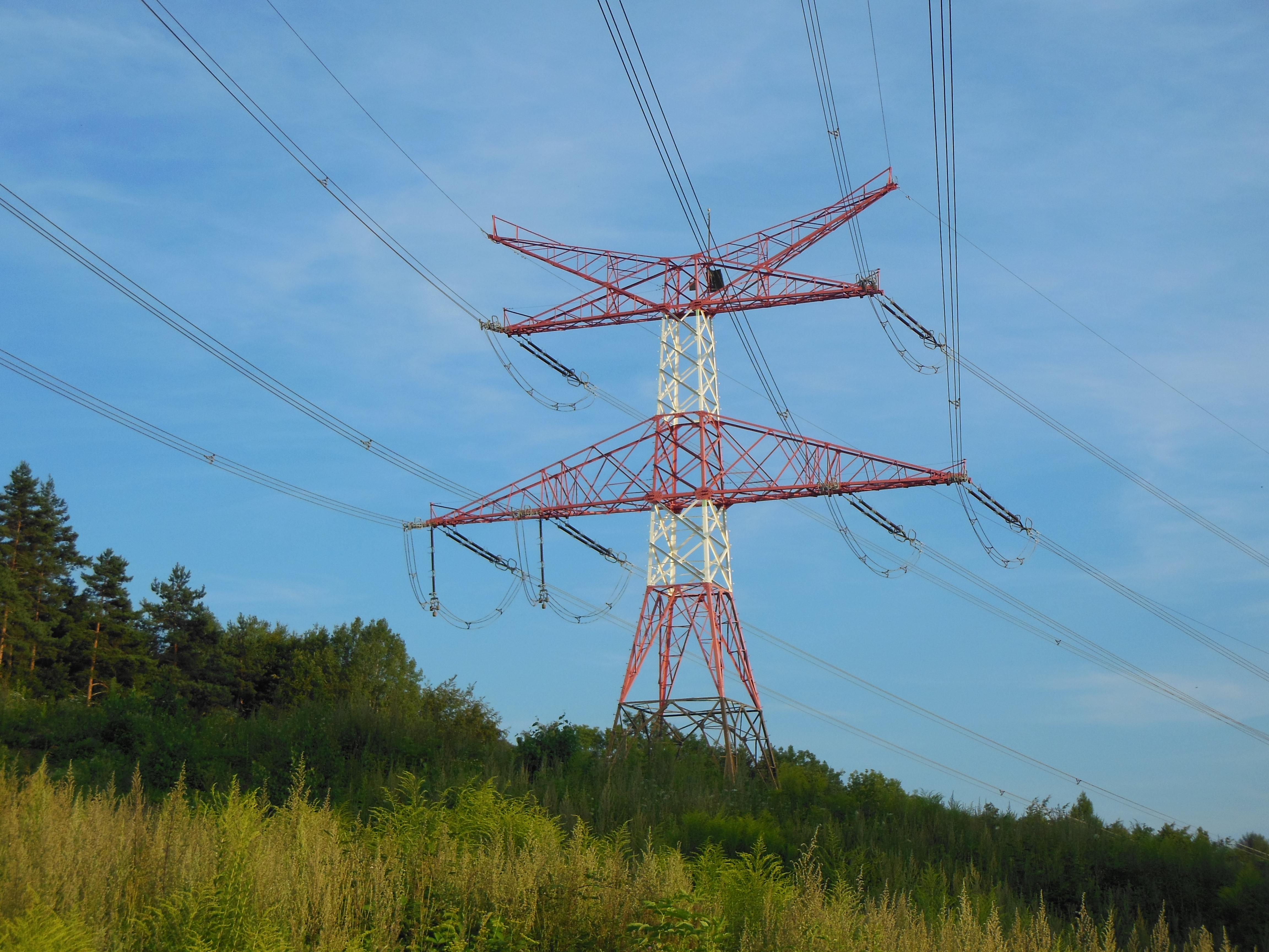 Lines 477 and 478 of Slovenská elektrizačná prenosová sústava with 400 kV AC, east of Ruská Nová Ves, Prešov district, Eastern Slovakia.